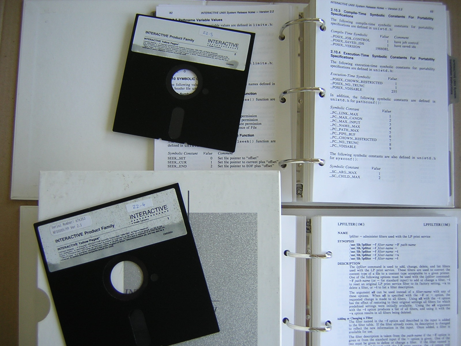 Interactive Unix manual with some disks of INTERACTIVE Yellow Pages